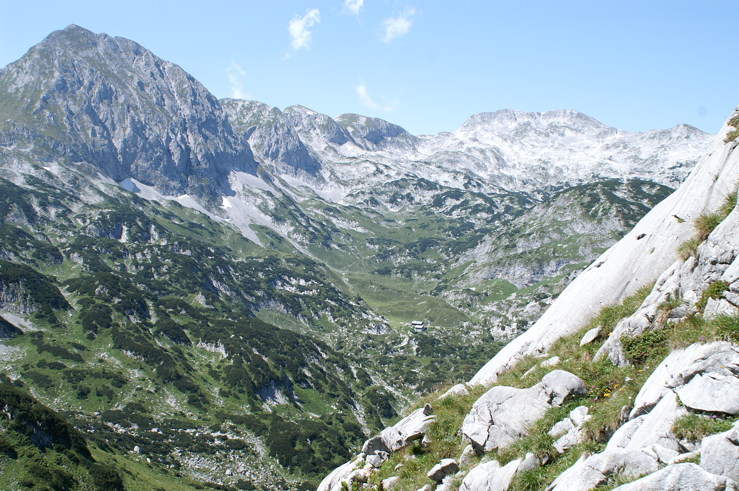 Photo of the Tennengebirge, Fritzerkogel on the left, in background right of middle Bleikogel, Laufen Hut in the photo center.